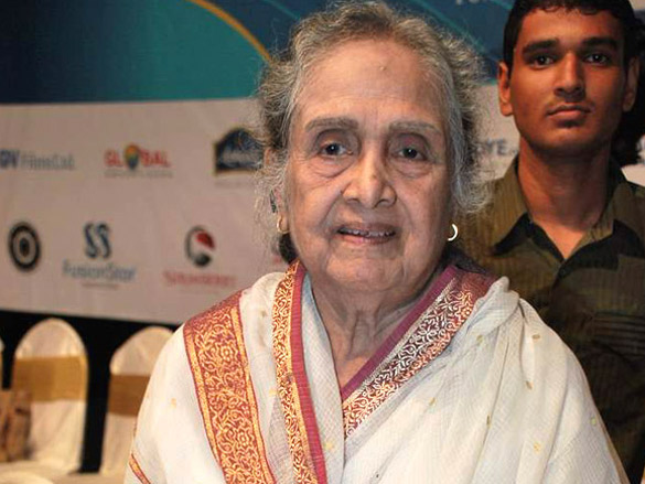 Marathi film veteran actress Sulochana at the Dada Saheb Phalke Academy Awards, 2010